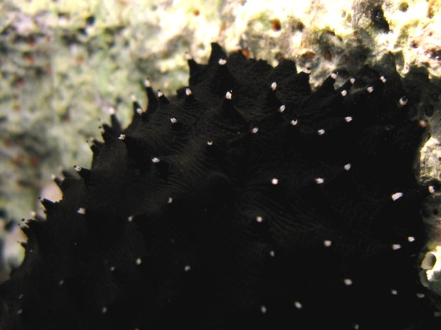 Holothuria forskali